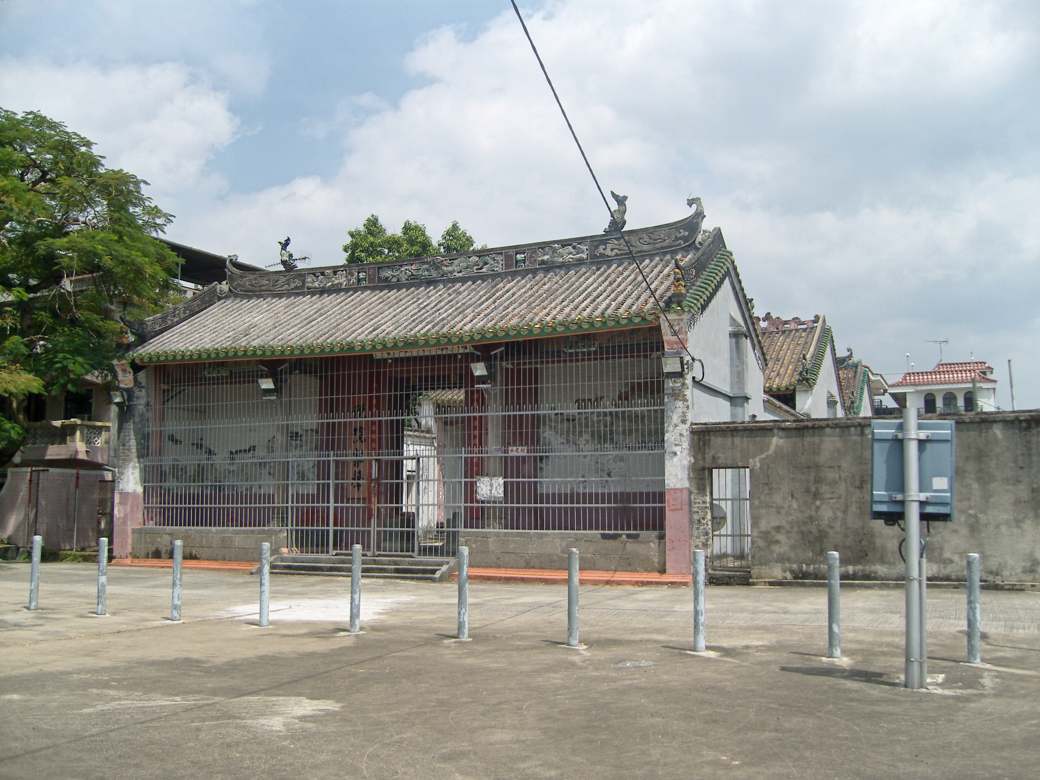 Tang Ching Lok ancestral hall in Shui Mei Village Kam Tin, Hong Kong.